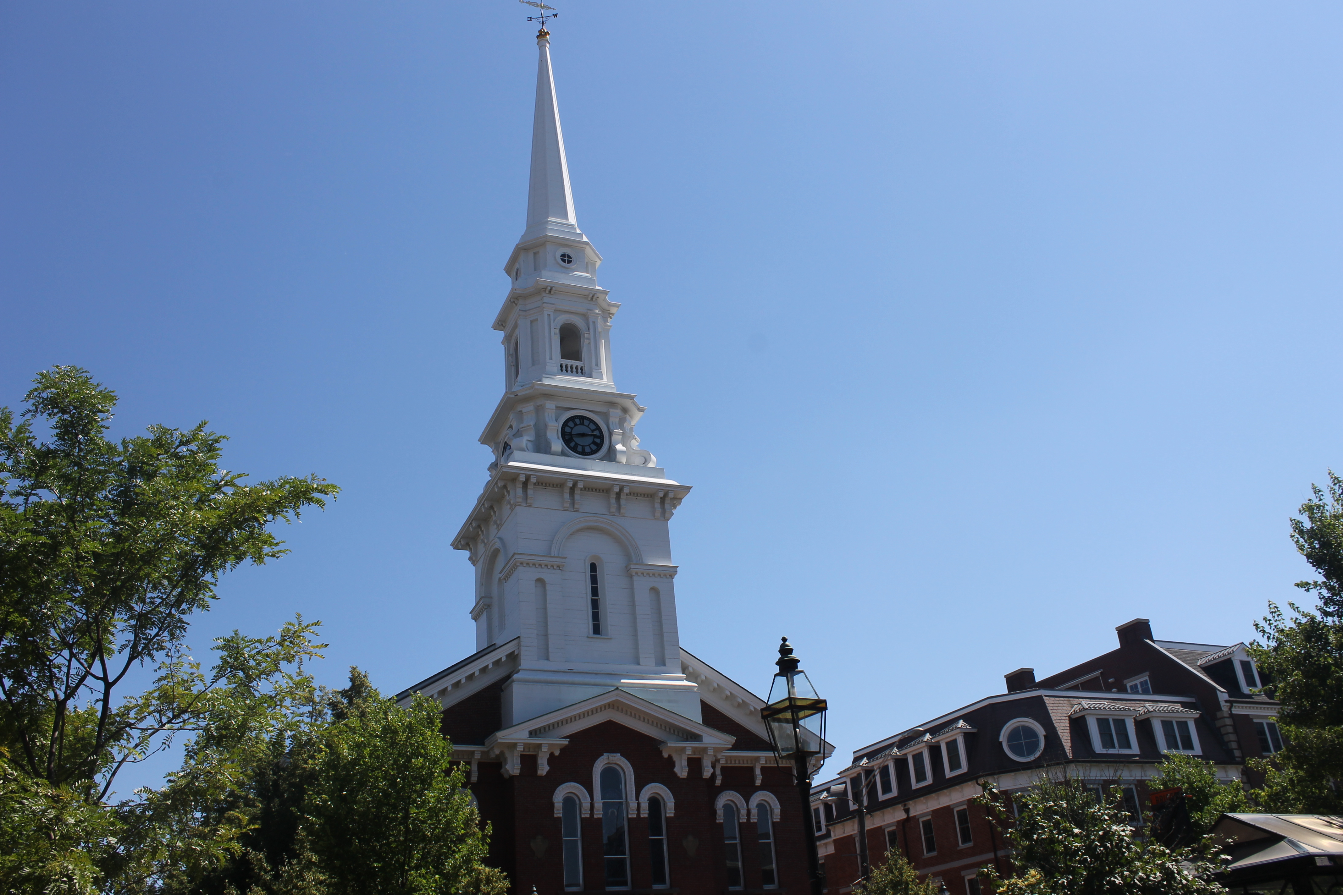 I took photo with Canon camera of North Church (United Church of Christ) in Portsmouth, NH.